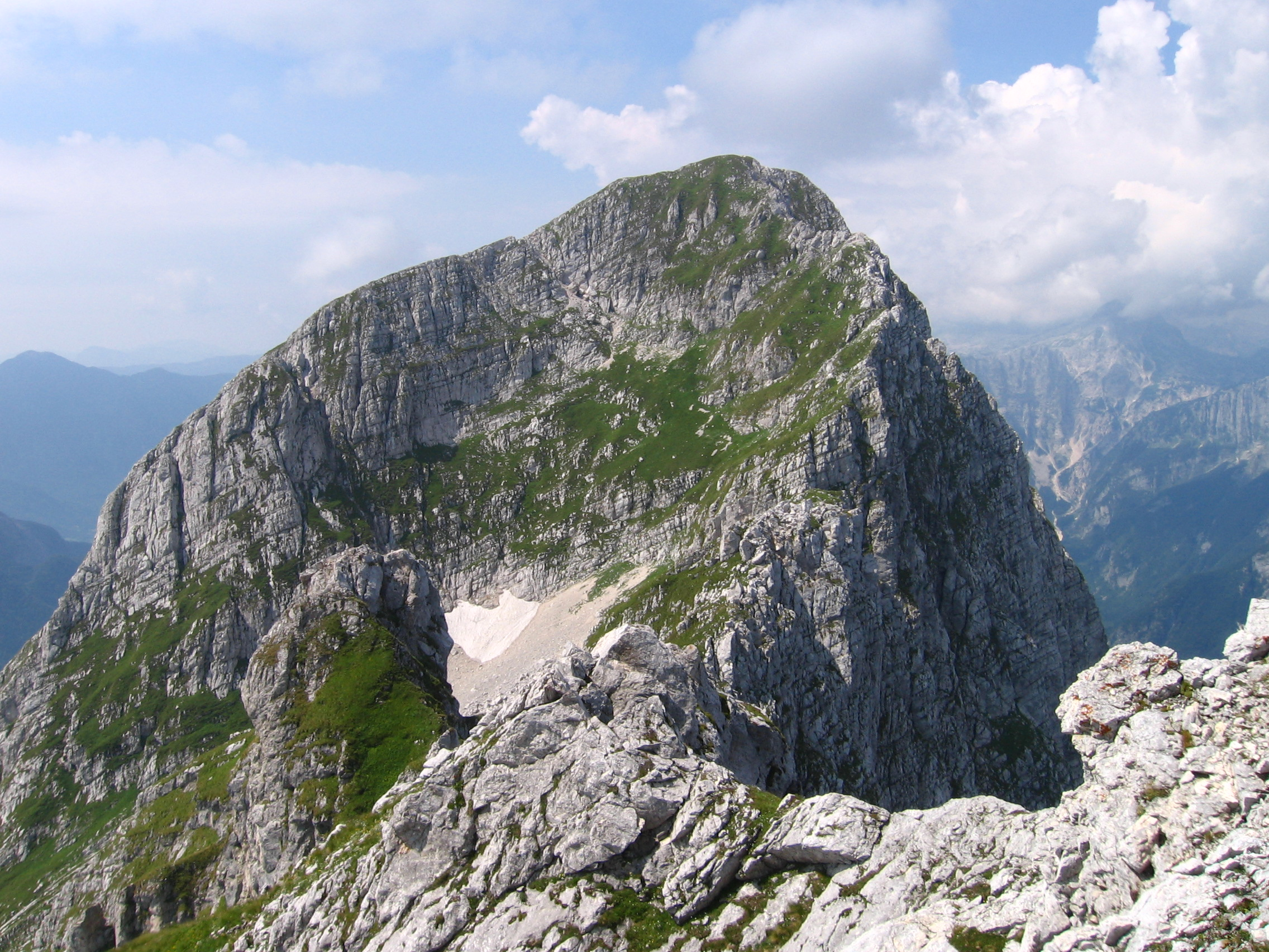 Mt. Briceljk (2346 m) from Morež (NE), the highest peak of Loška stena wall above Loška Koritnica valley, Slovenia.